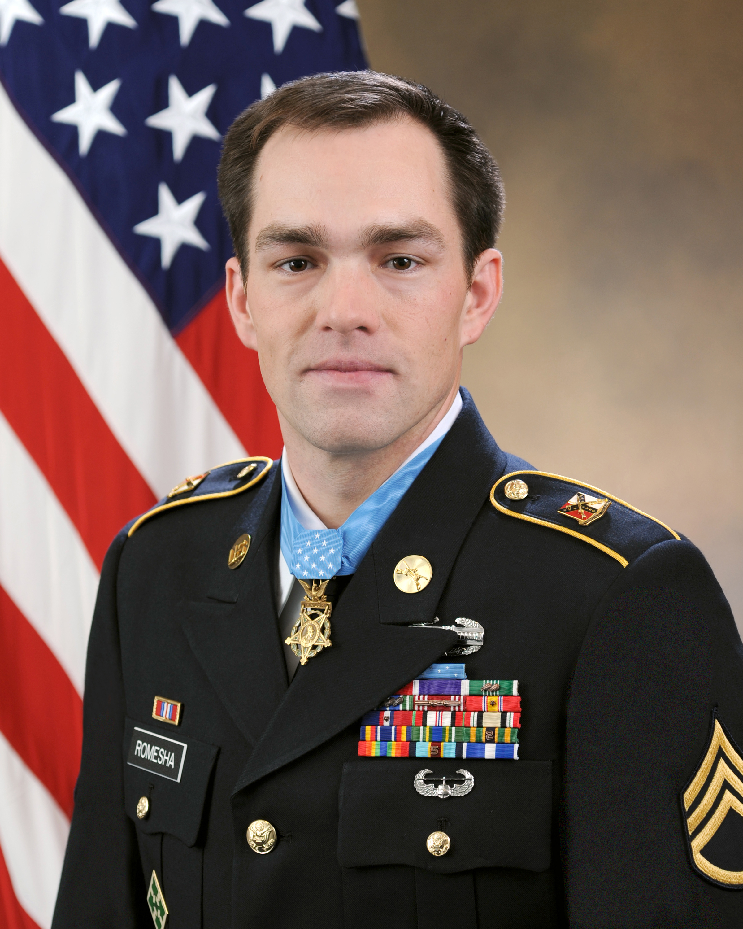 Clinton L. Romesha, the recipient of the Medal of Honor, poses for a portrait with the medal in the Army portrait studio at the Pentagon in Arlington, Va., Feb. 12, 2013. (U.S. Army photo by Monica King)